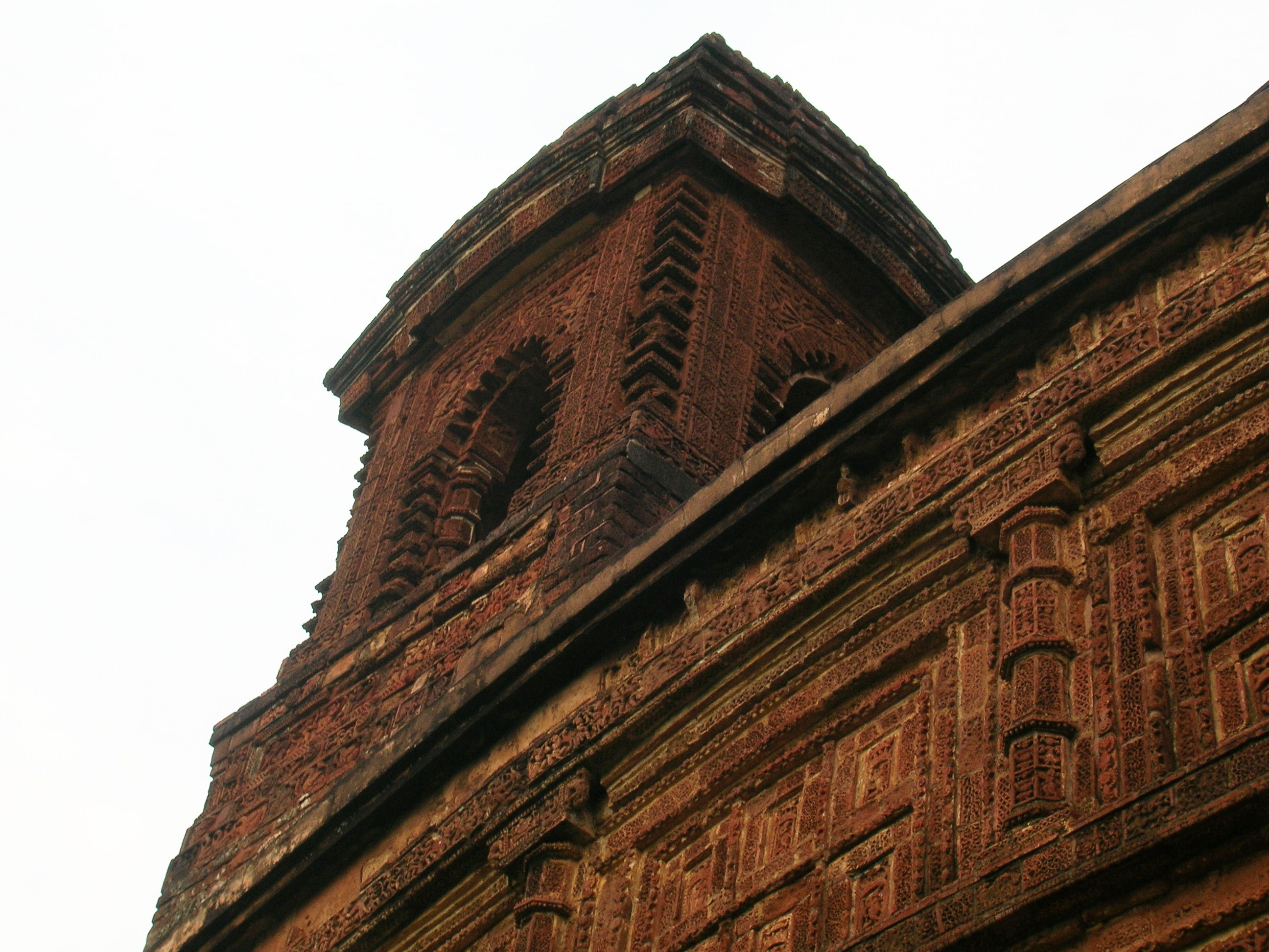 One of the five Shikhars of Shyam Ray Temple (c. 1643), Bishnupur, Bankura dist., West Bengal, India.